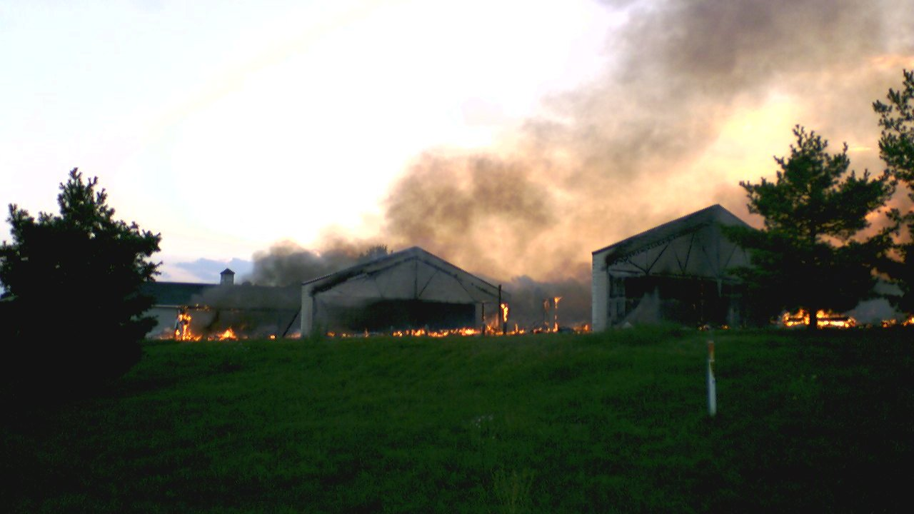 The firewalls are the only parts of Building 7 still standing following a training exercise with the Waynesboro Fire Department on August 12, 2006. Several of the former Outlet Village buildings were burned to the ground in 2006 for training purposes prior to the property's redevelopment.